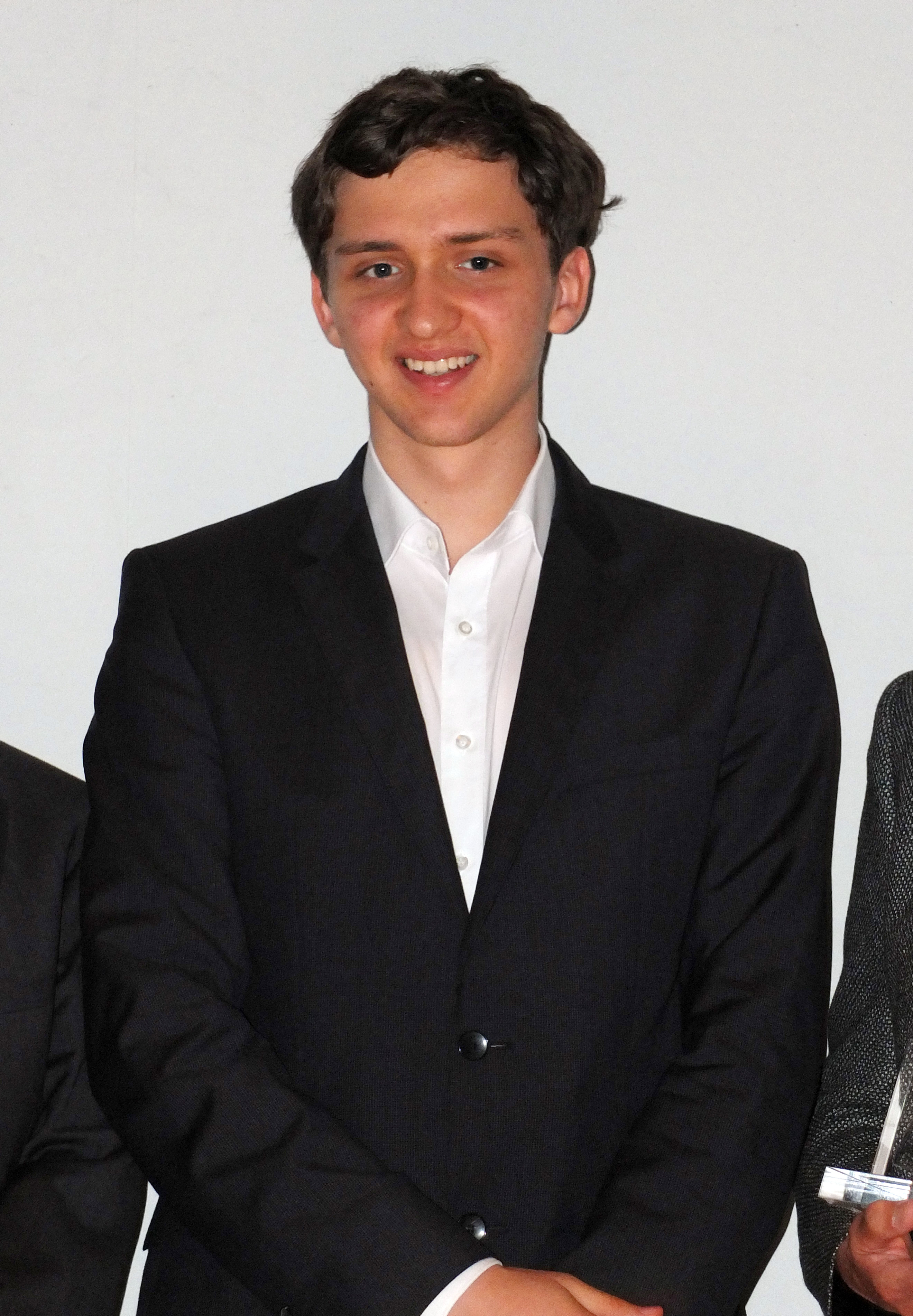 Alexander Donchenko, German chess grandmaster at the Dortmund Sparkassen Chess Meeting